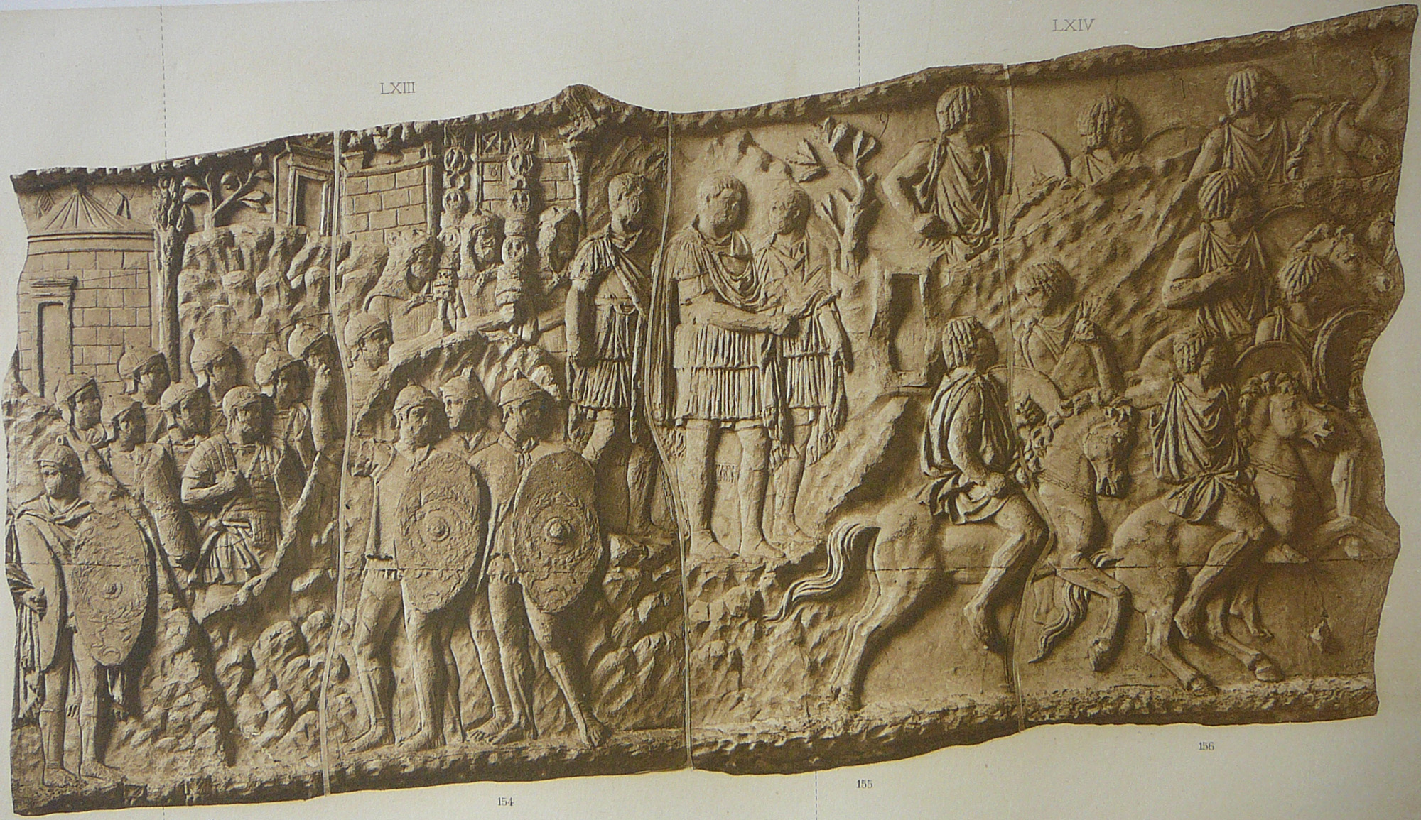 Advance into the mountains (scene LXIII); light cavalry flying columns (scene LXIV)